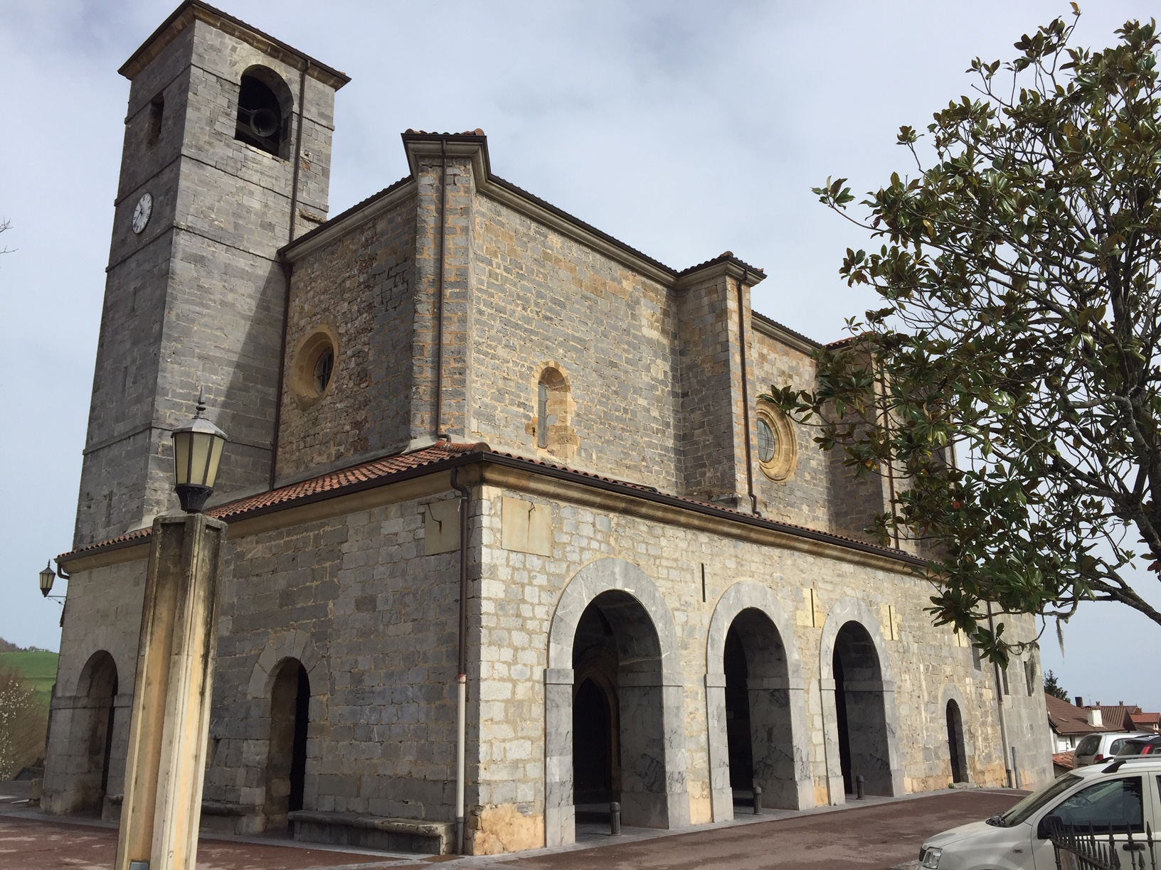 Saint Martin Church, Alkiza